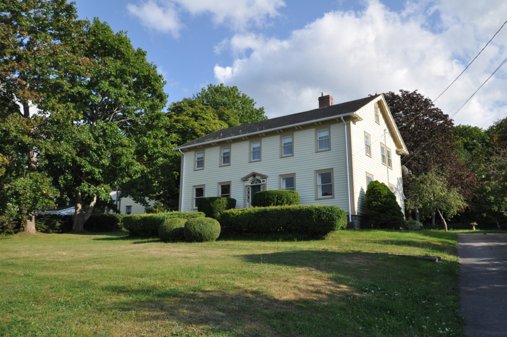 Payson House, Weymouth, Nova Scotia.